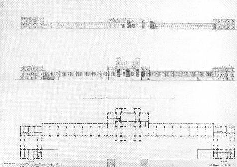 Elevation and ground-plan, Orangery palace, Potsdam, Germany